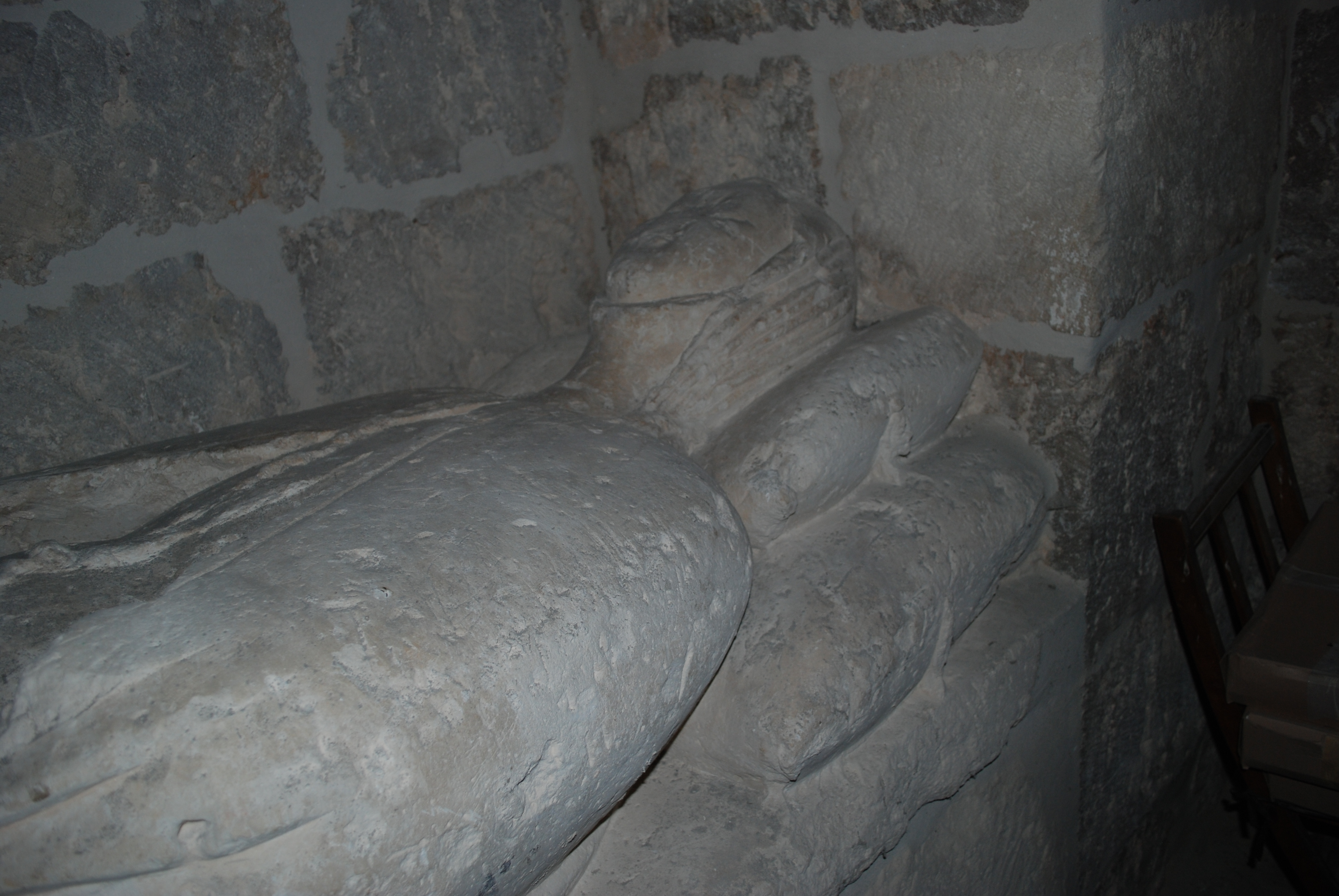 Sepulcher of the queen Eleanor of Castile (1307-1359), daughter of Ferdinand IV of Castile and wife of the king Alfonso IV of Aragon. Iglesia de Nuestra Señora del Manzano of Castrojeriz, province of Burgos, (Spain).